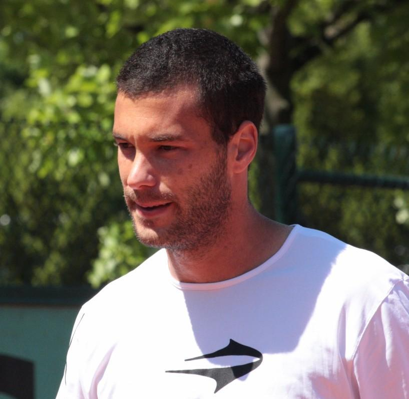 José Acasuso at 2009 Roland Garros, Paris, France